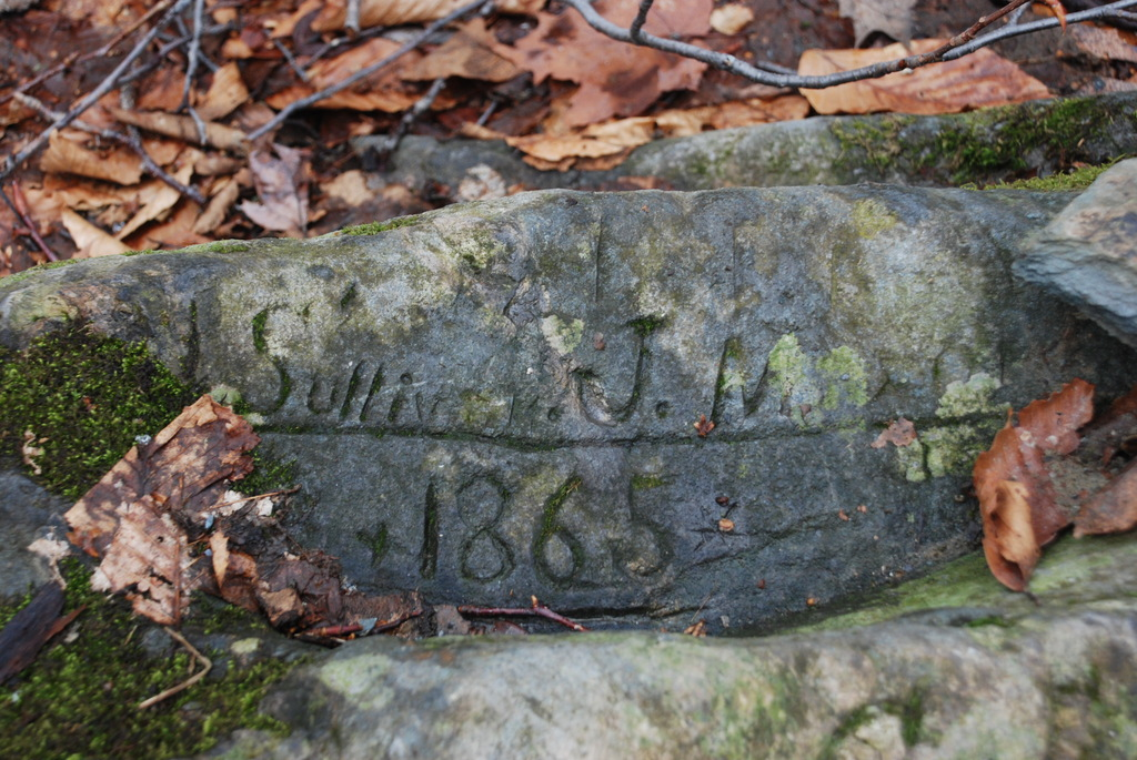 picture of carving at the snow hole in NY USA dating from 1865